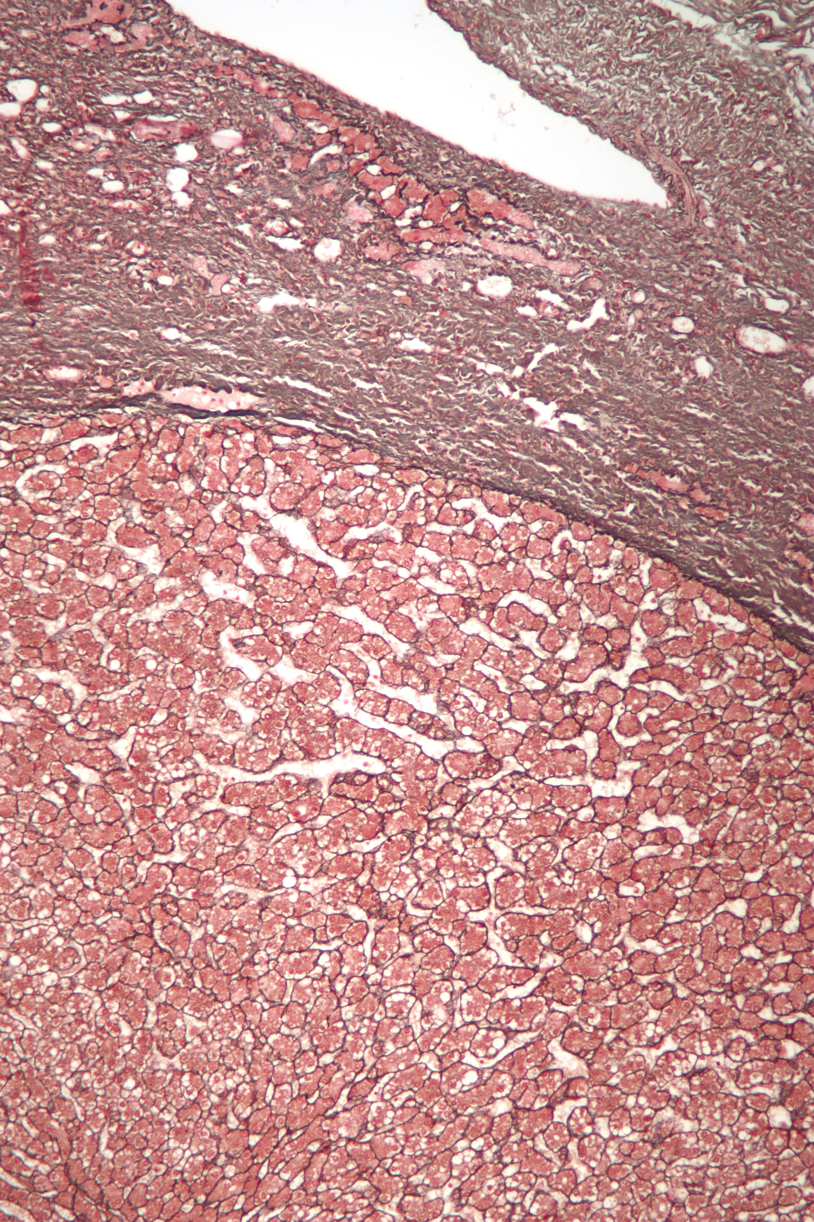 High magnification micrograph of a hepatic adenoma. Reticulin stain. Features: Sheets of hepatocytes with bubbly vacuolated cytoplasm - that are on a regular reticulin scaffold and less or equal to three cell thick. Lack identifiable portal triad (consisting of bile ductule, venule and arteriole). Low mag. High mag. Low mag. (reticulin) High mag. (reticulin)